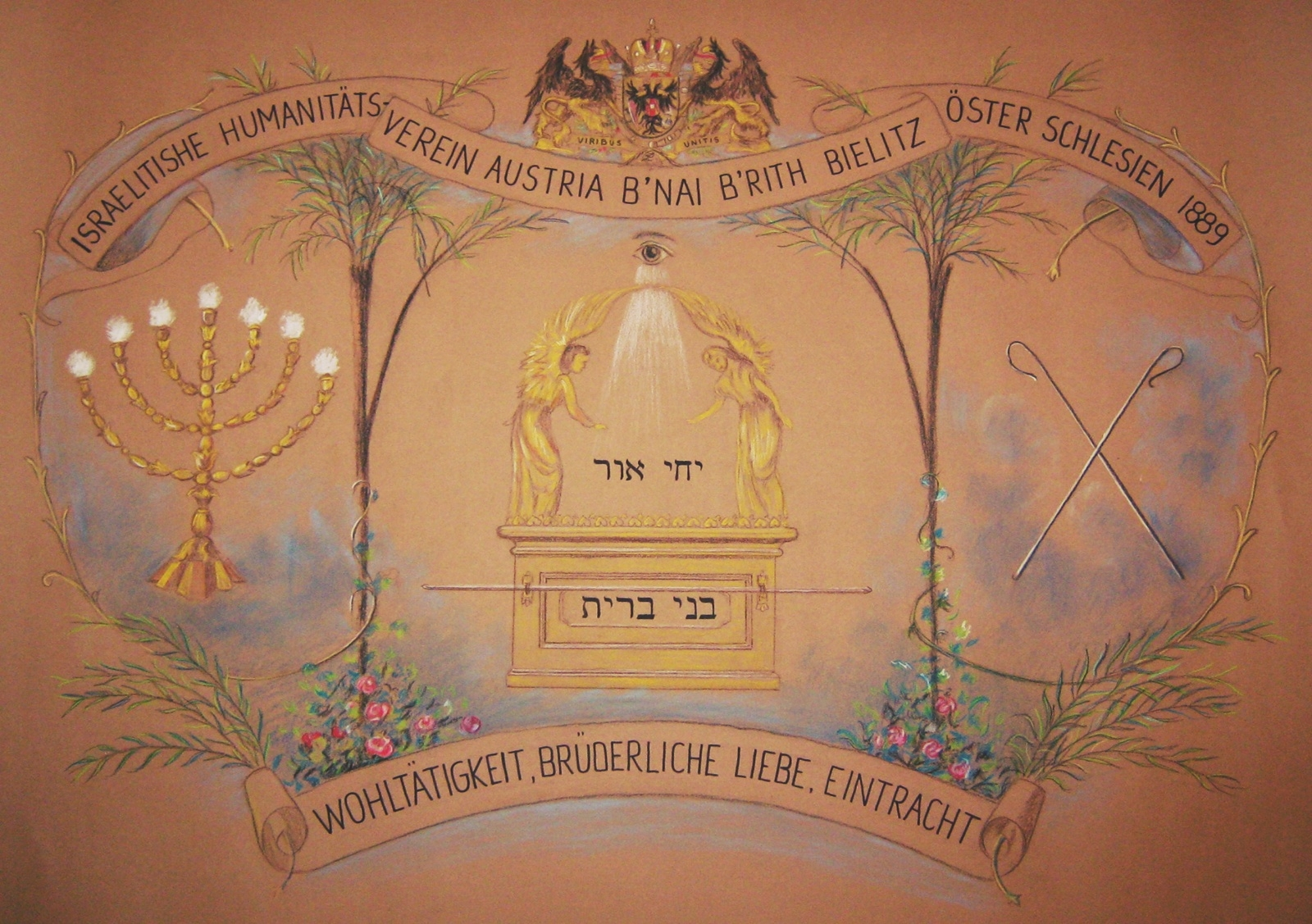 The symbolic image of the B'nai B'rith "Austria" Bielitz 1889